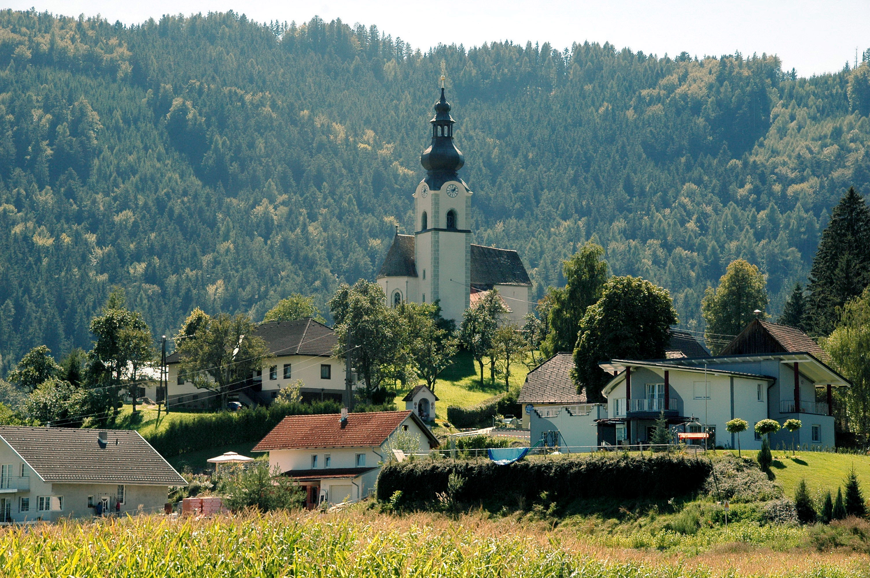 Parish church Saint George in Sankt Georgen am Weinberg, municipality Völkermarkt, district Völkermarkt, Carinthia, Austria, EU